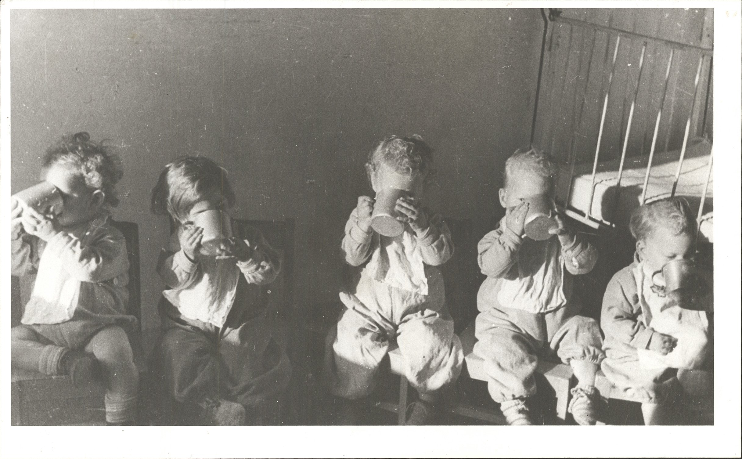 children at Kibbutz Givat Hshlosha, Education in Israel